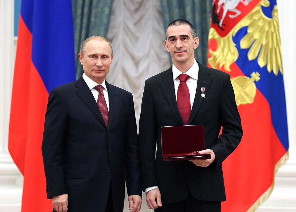 At the ceremony of presenting state awards of the Russian Federation. Test cosmonaut Anatoli Ivanishin awarded the title Hero of Russia and the honorary title of «Pilot-Cosmonaut of the Russian Federation».